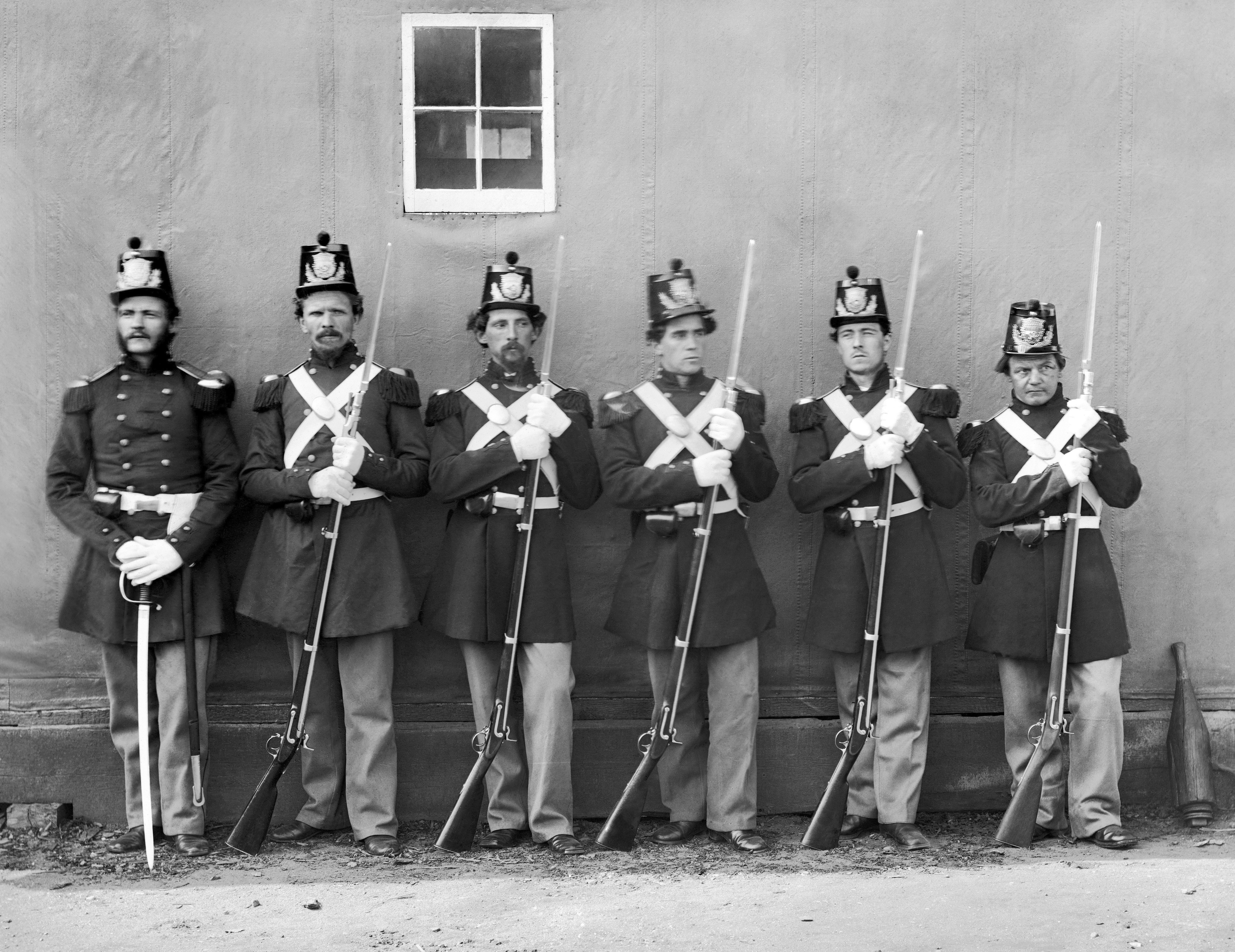 Pictured by an unknown photographer, five U.S. Marine Corps privates with fixed bayonets under the command of their noncommissioned officer (NCO), who displays his M1859 Marine NCO sword. Navy Yard, Washington, DC, April 1864. From a collection of photographs of the Federal Navy, and seaborne expeditions against the Atlantic Coast of the Confederacy -- the Federal Navy, 1861-1865. Library of Congress, Prints & Photographs Division, [reproduction number, e.g., LC-B8184-3287] Higher-resolution version: MEDIUM 1 negative: glass, wet collodion. CALL NUMBER LC-B817- 7697. REPRODUCTION NUMBER LC-DIG-cwpb-04148 DLC (digital file from original neg.) LC-B8171-7697 DLC (b&w film neg.)